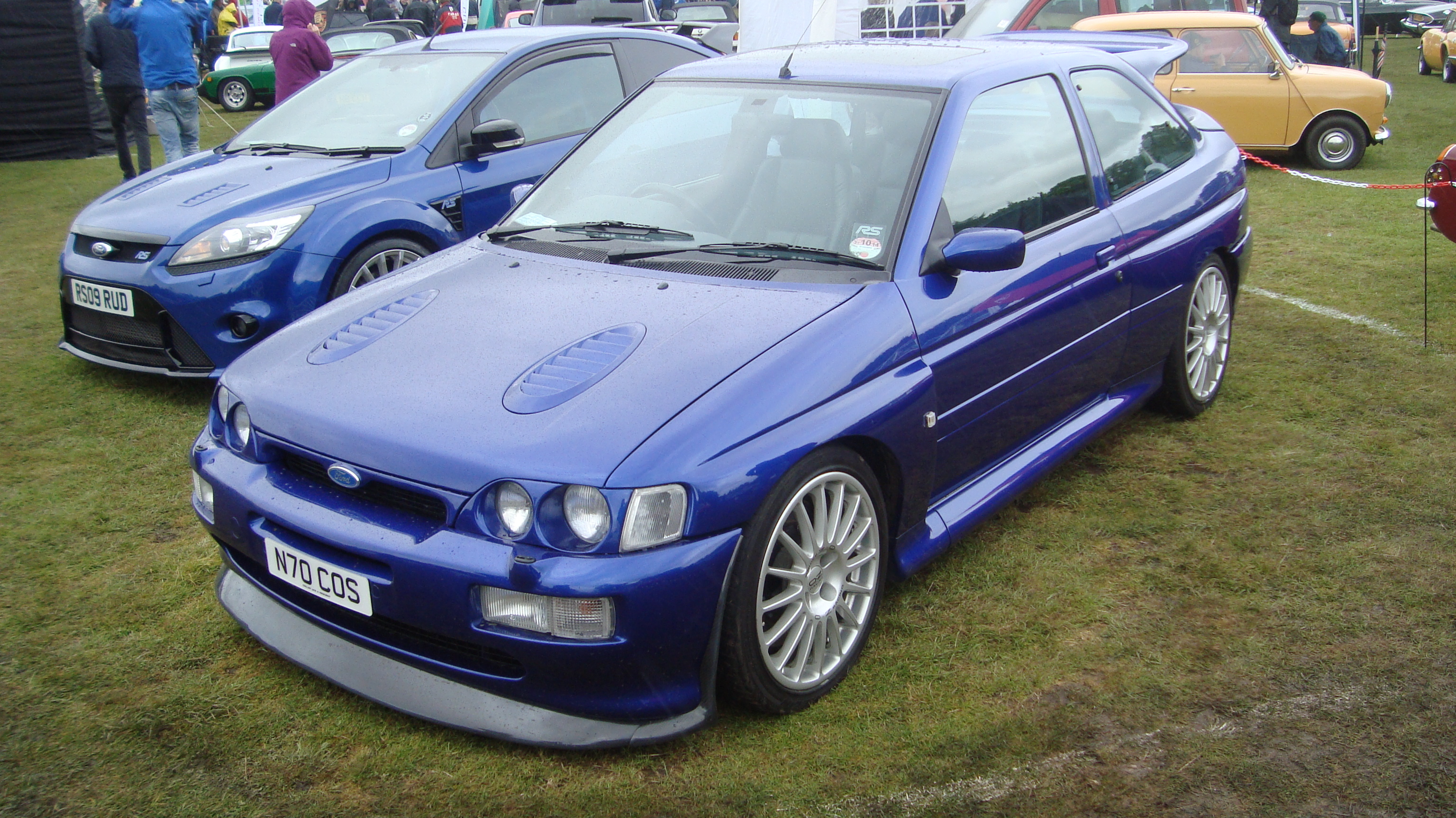 1995 Ford Escort RS Cosworth